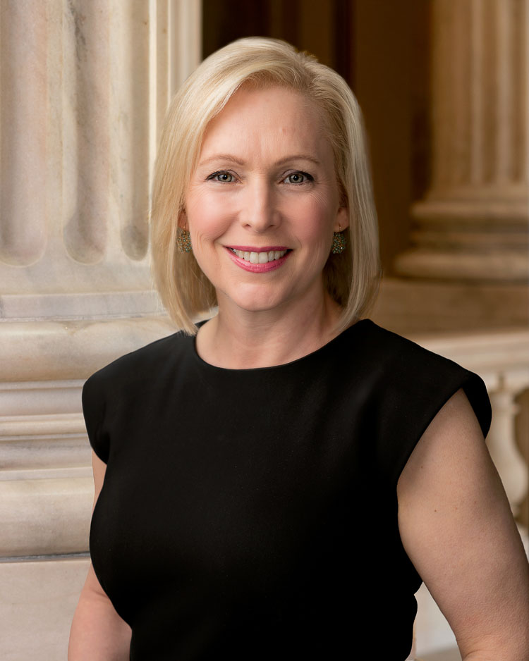 Kirsten Gillibrand, official photo, 116th Congress.